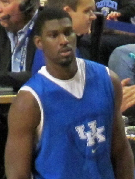 Alex Poythress in Kentucky's 2013 Blue-White scrimmage game at Rupp Arena in Lexington, Kentucky